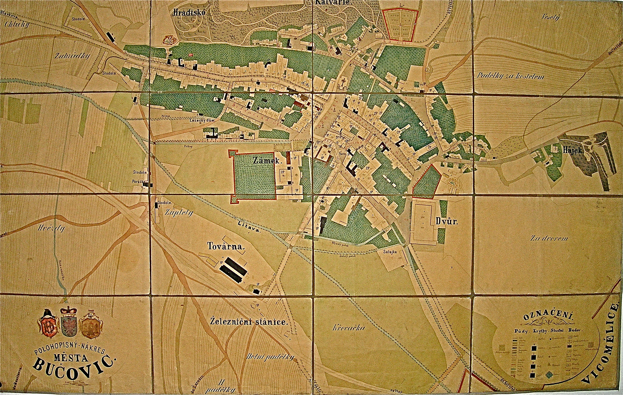 Map of city Bučovice y.1860